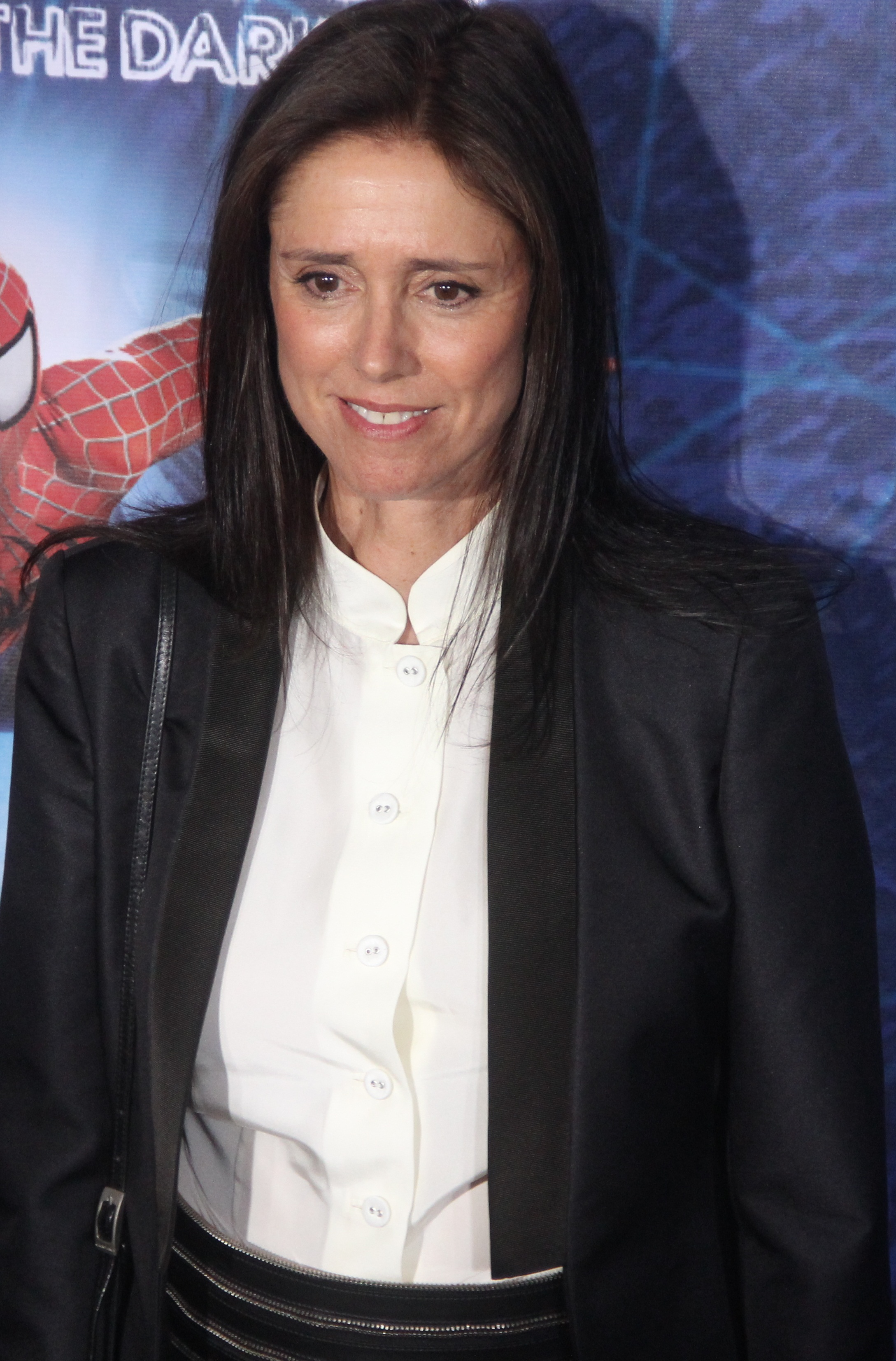 Julie Taymor at the Spiderman: Turn Off the Dark opening at Foxwoods Theatre, New York City in June 2011